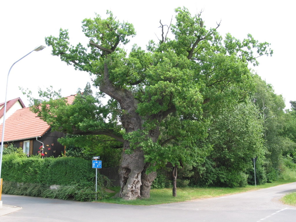 oaktree of Eckardts/Germany